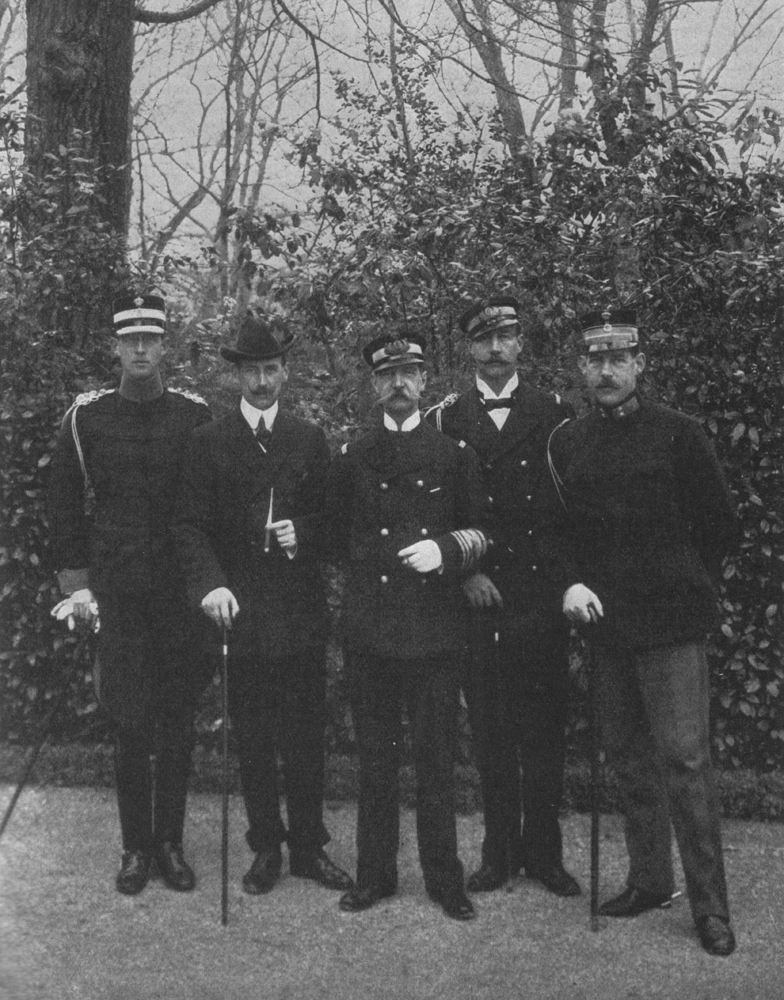 George I of Greece with his sons.